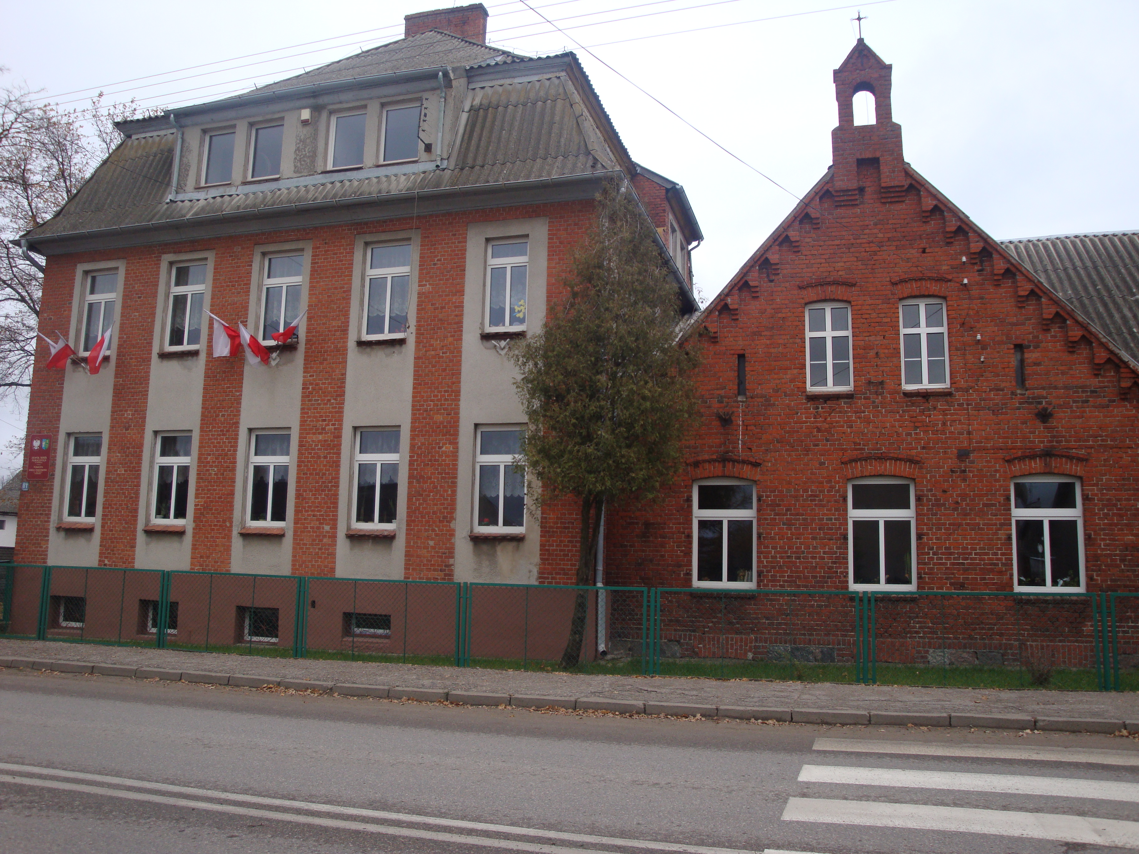 Elementary school in Bobowo, Poland